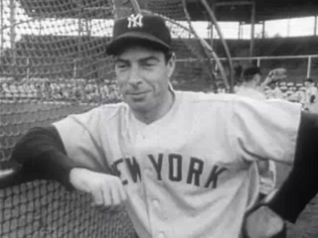 New York Yankees slugger Joe DiMaggio during the New York Yankees' 1951 Spring Training in Phoenix, Arizona. * Screen capture from the film located at: This movie is part of the collection: Prelinger Archives